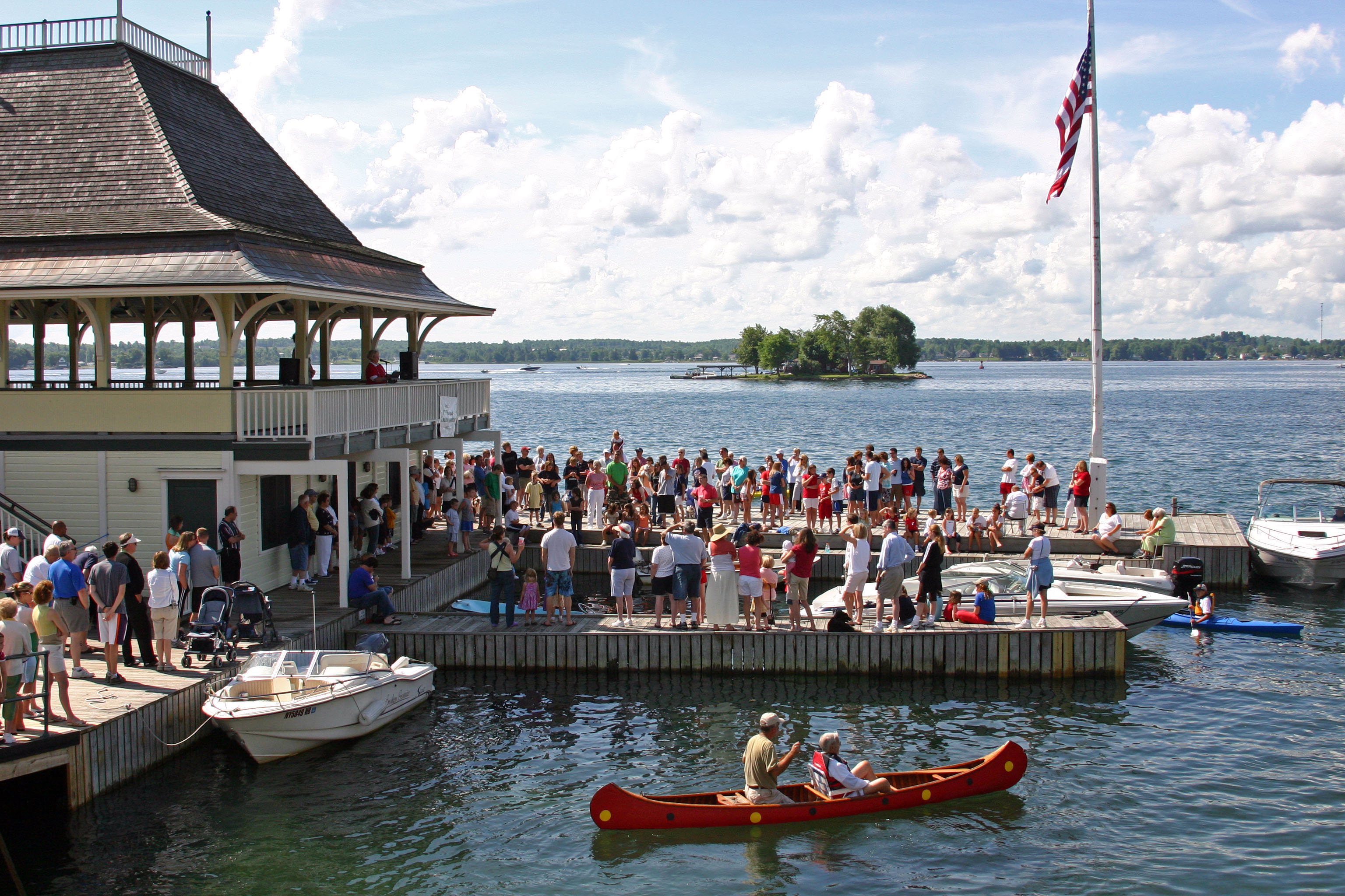 The Pavilion ca. 1875, located on St. Lawrence River in theThousand Island Park Historic District.